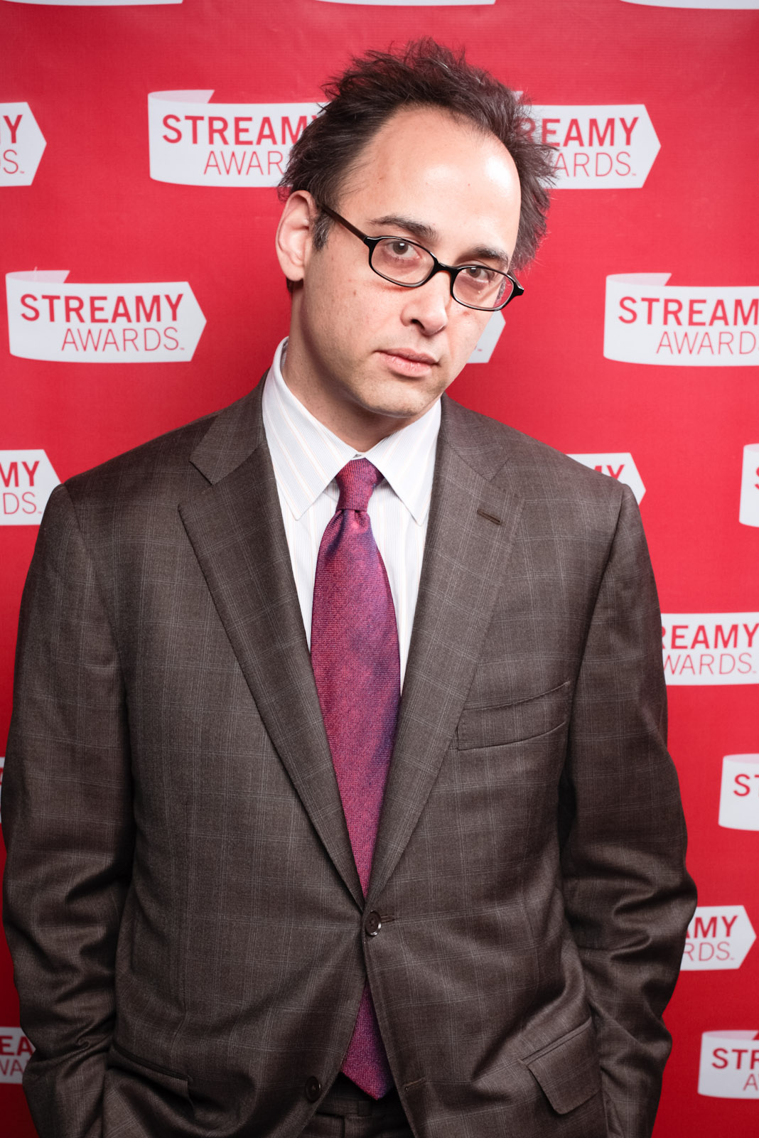 Actor and comedian David Wain